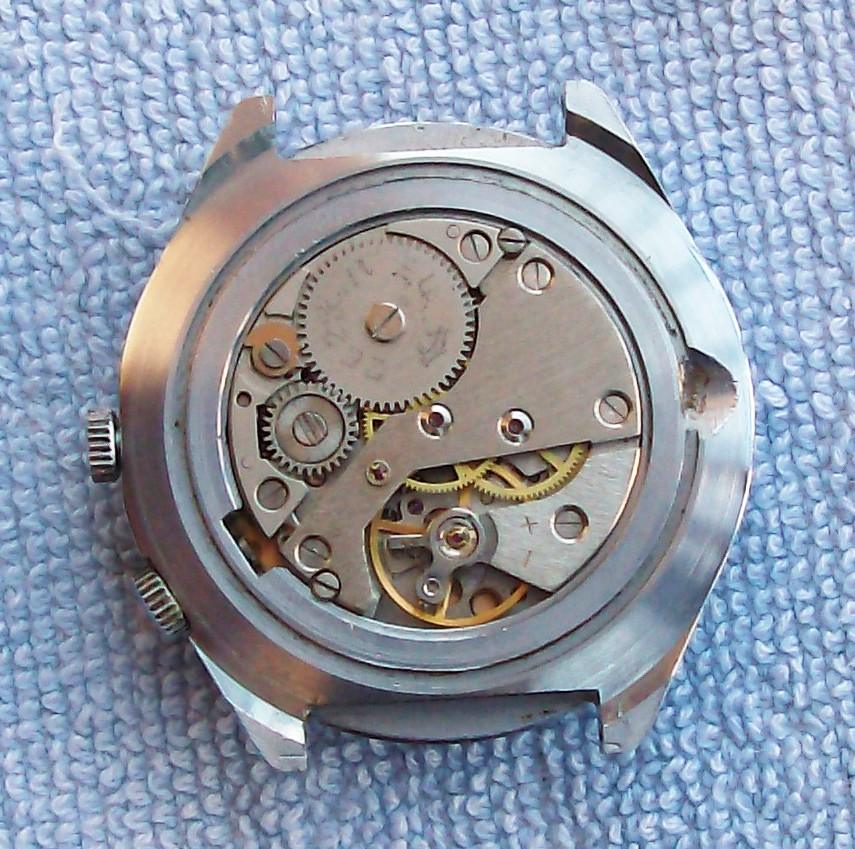 A Raketa 2623N 24-h movement